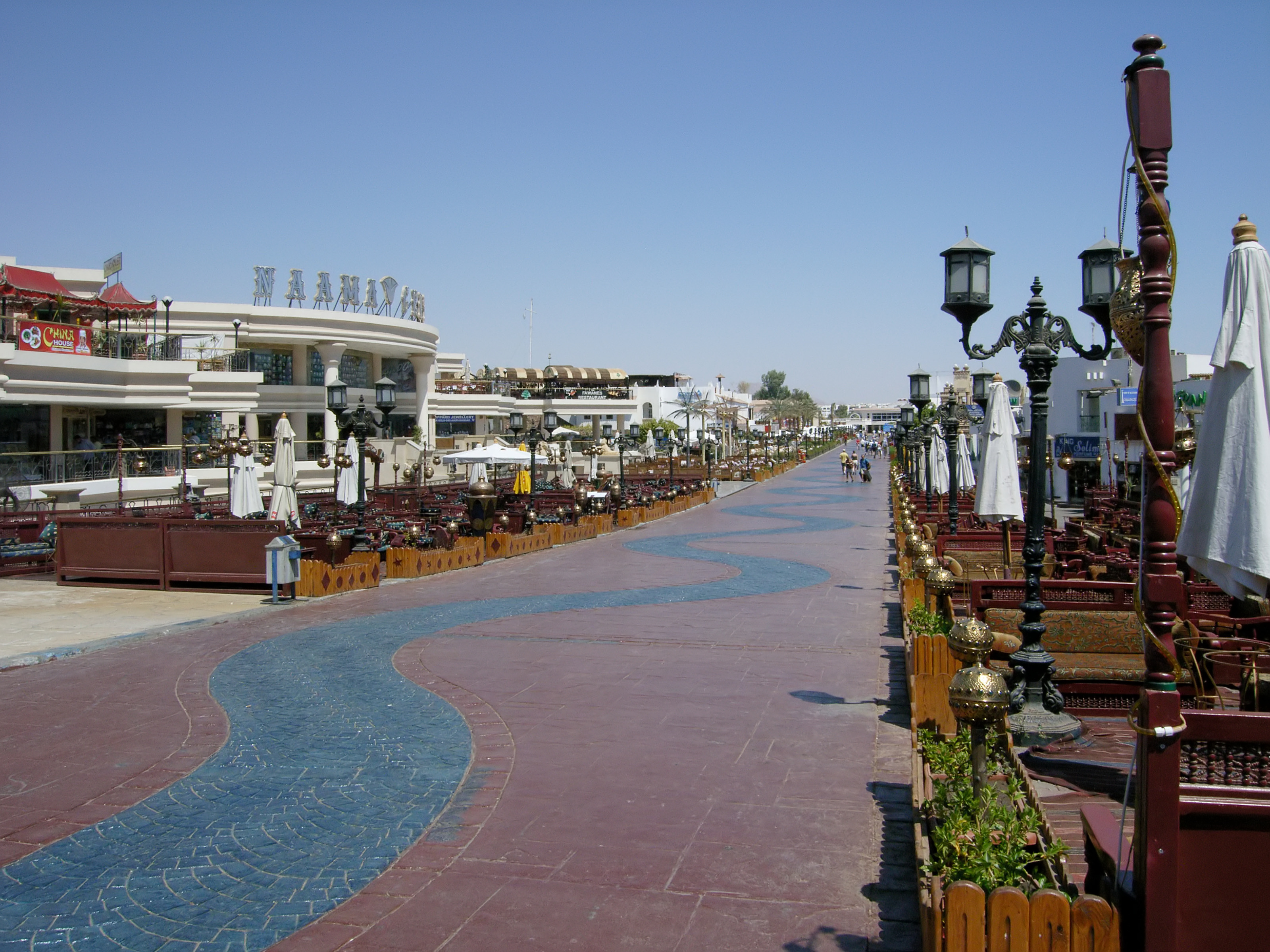 King of Bahrein Street, Sharm el-Sheikh, Egypt